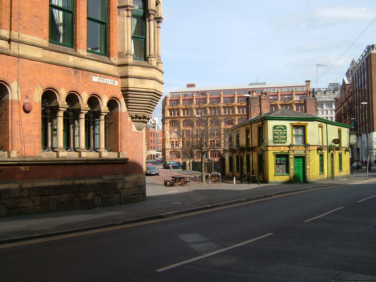 Manchester: Buildings in Great Bridgewater Street and Chepstow Street, Manchester city centre: Chepstow House, the Peveril of the Peak PH, and in the background Canada House